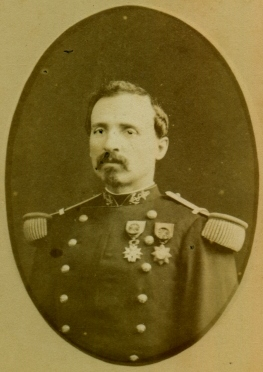 Colonel Charles Auguste Frédéric Bégin, commande le 1er régiment colonial à Cherbourg